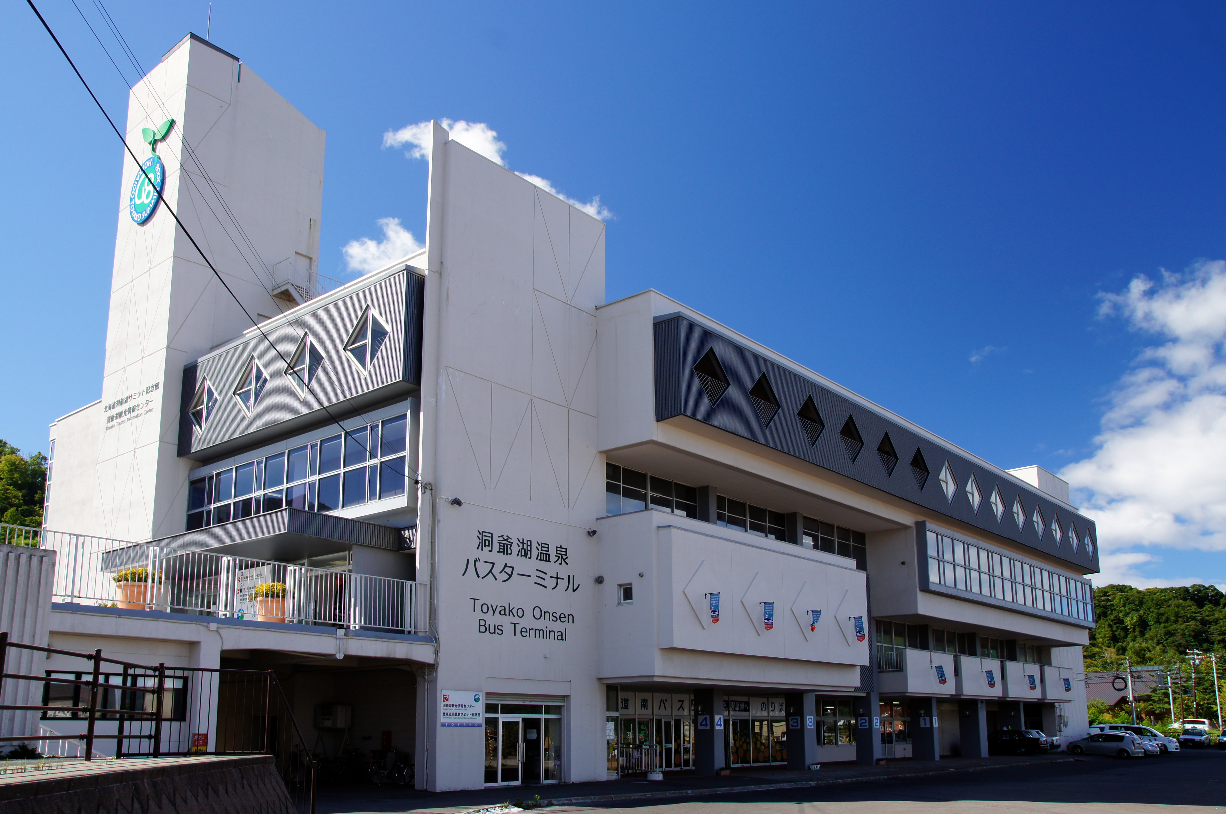 Toyako Summit Memorial Museum in Toyako, Hokkaido prefecture, Japan.